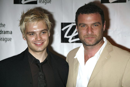 "Talk Radio" stars Sebastian Stan and Liev Schreiber at the 2007 Drama League Awards, New York City.